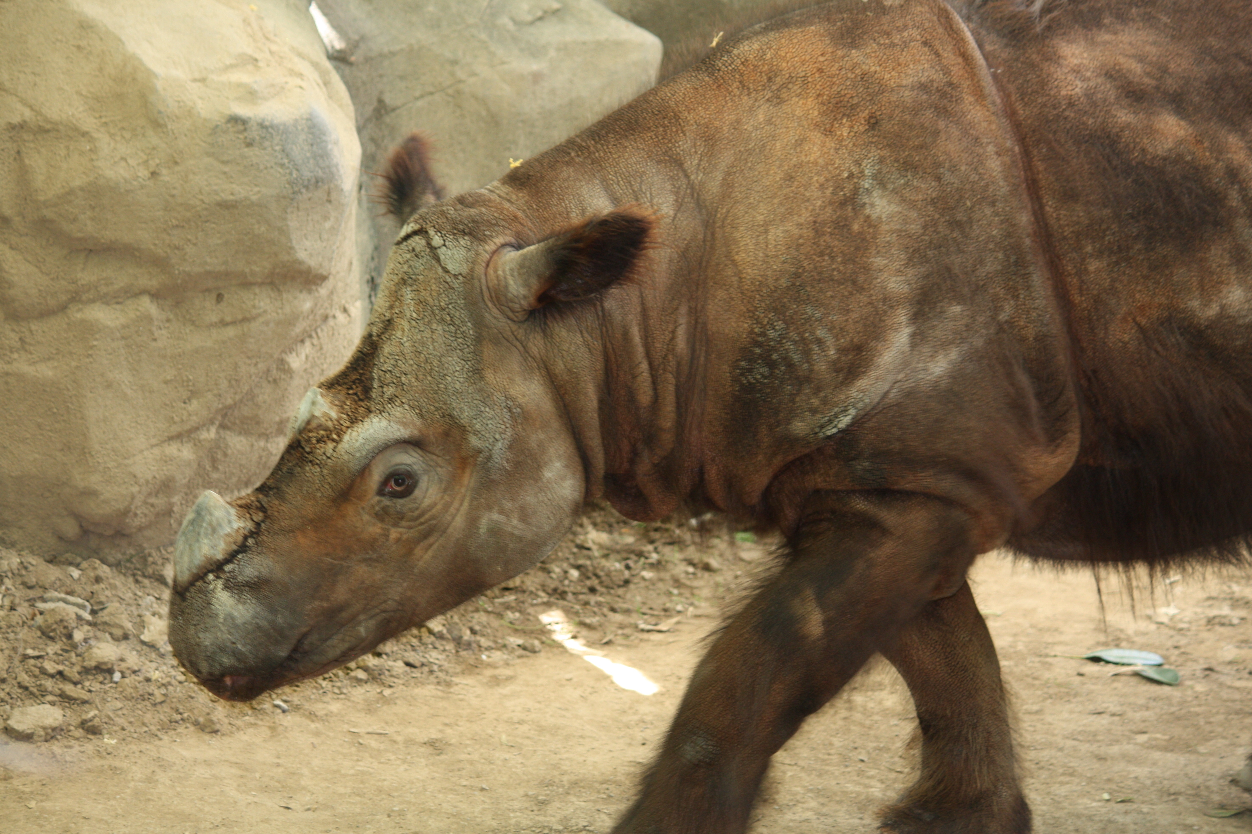 Sumatran Rhino Dicerorhinus sumatrensis at Cincinnati Zoo